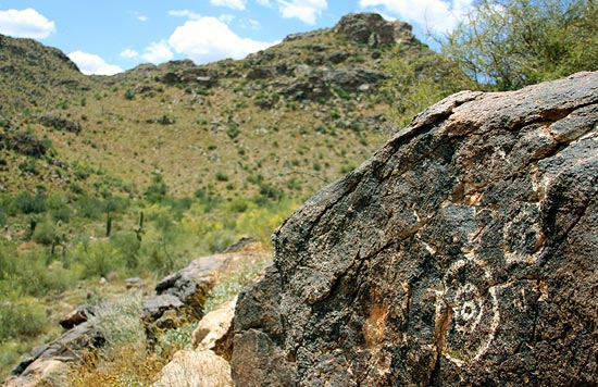 Photo by Roger Hall Native American Petroglyph, in the White Tank Mountains, Maricopa County, Arizona.